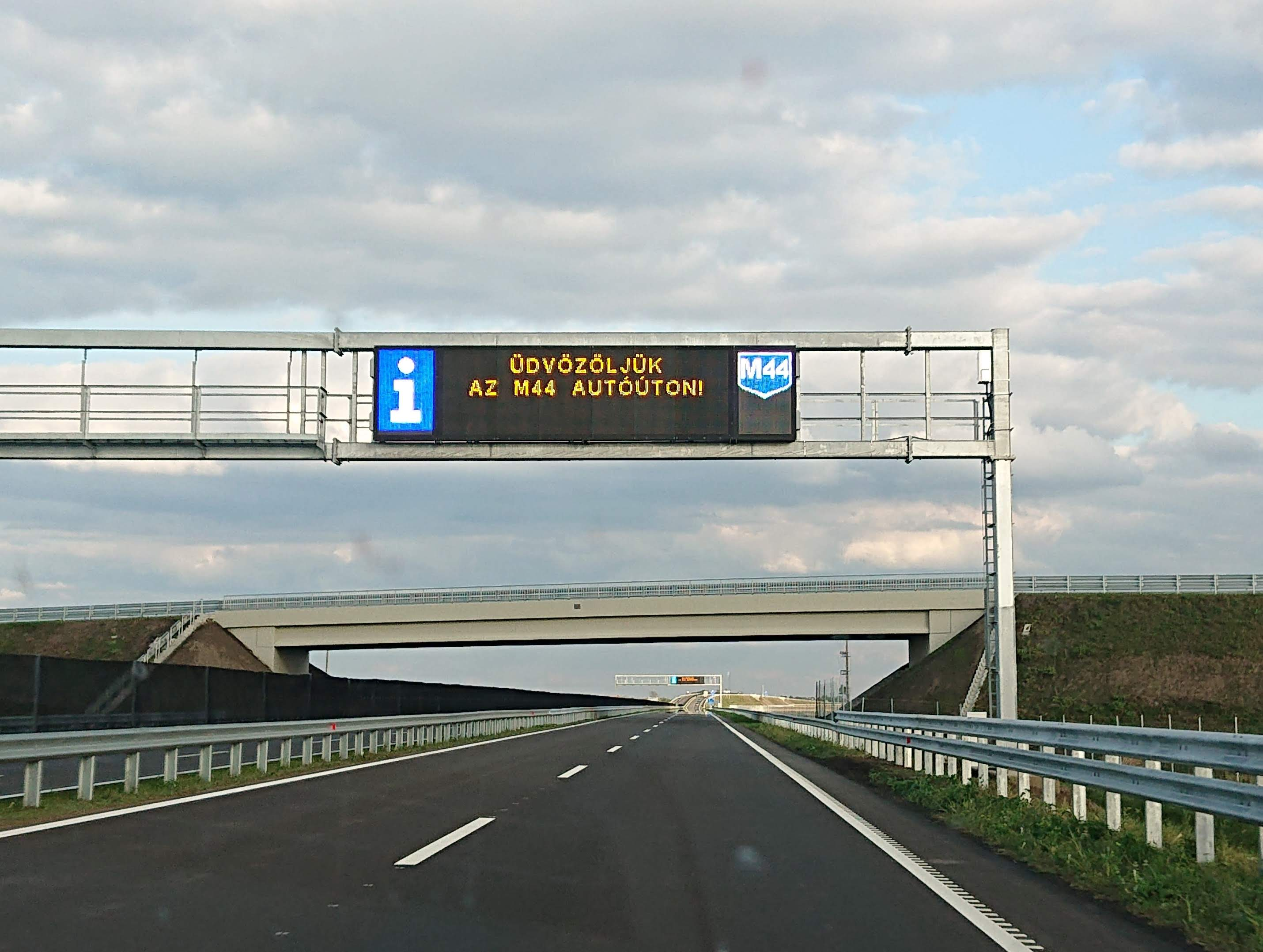 Greeting inscription over the M44 expressway after then inauguration on 04.10.2019